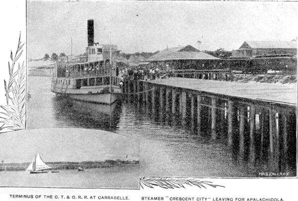 Photo of the port at Carrabelle, Florida. Local call number: Rc12343 Title: [Steamer "Crescent City" at the Wharf: Carrabelle, Florida] [graphic] Publication info: ca. 1895. Physical descrip: 1 photoprint b&w 8 x 10 in. Series Title: (Reference collection) General Note: Inset picture of terminus of the Carrabelle, Tallahassee and Georgia Railroad.